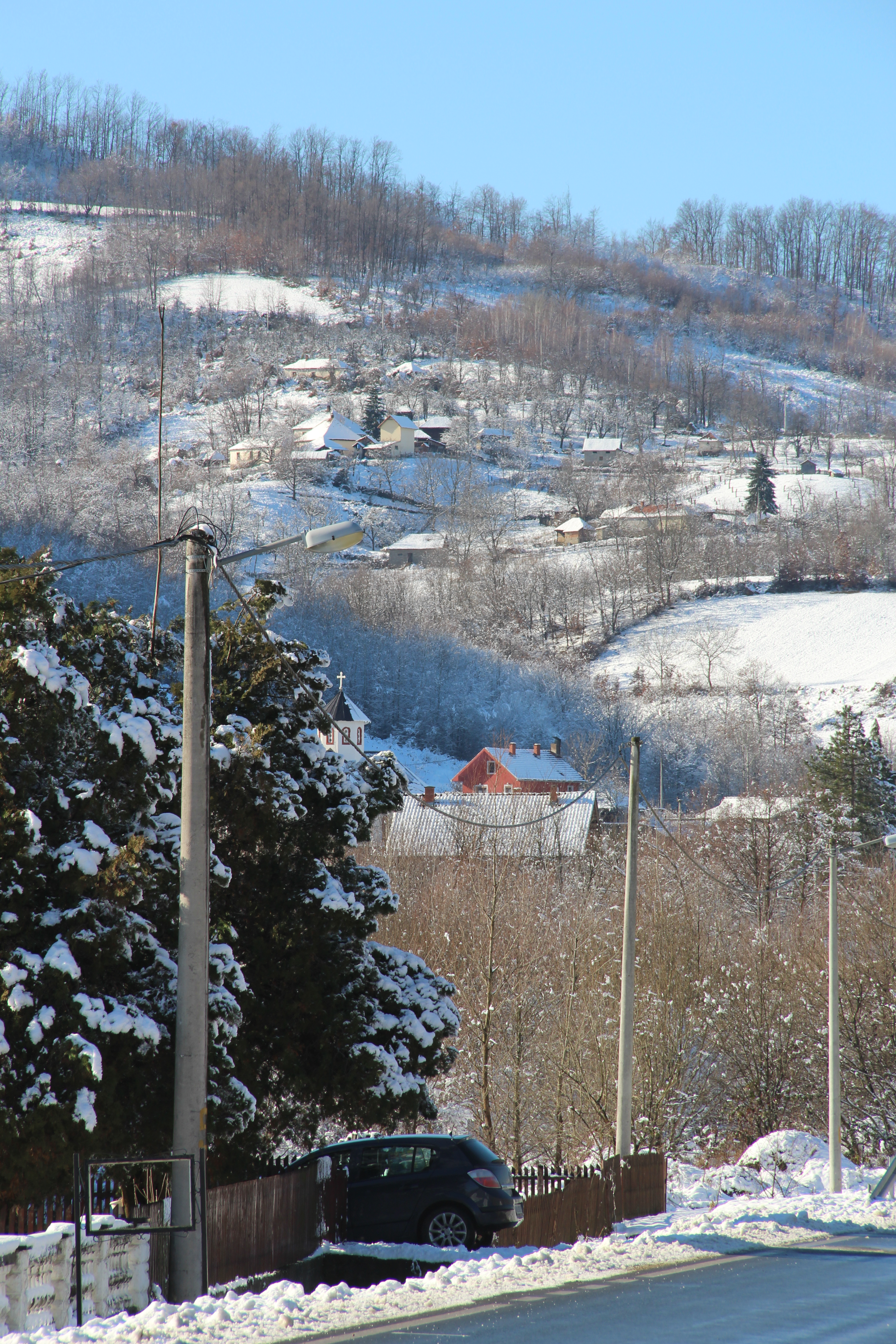 Dragijevica village - Municipality of Osecina - Western Serbia - panorama 9